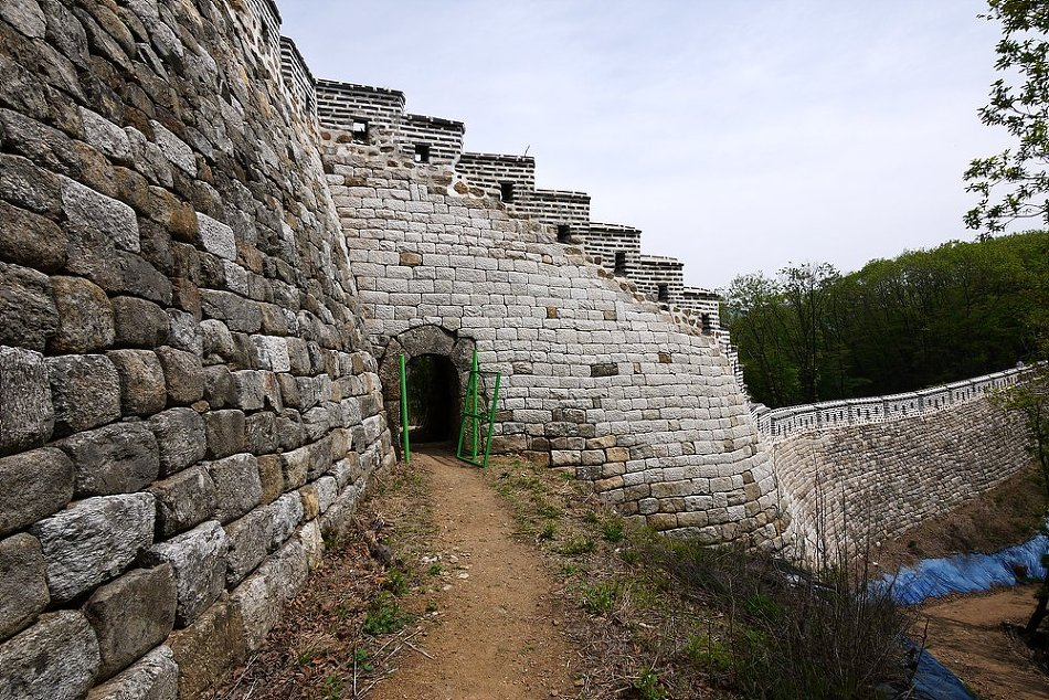 Gate no.9 of Namhansanseong